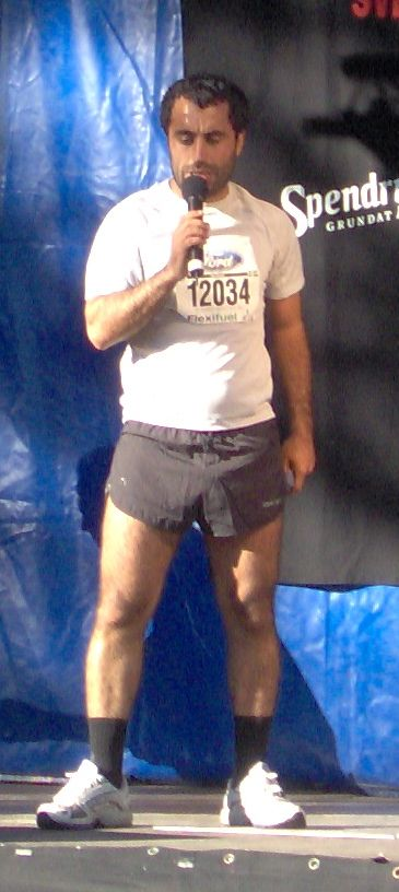 Swedish stand-up comedian Özz Nûjen at the Skrattstock stand-up festival 2006-06-03.